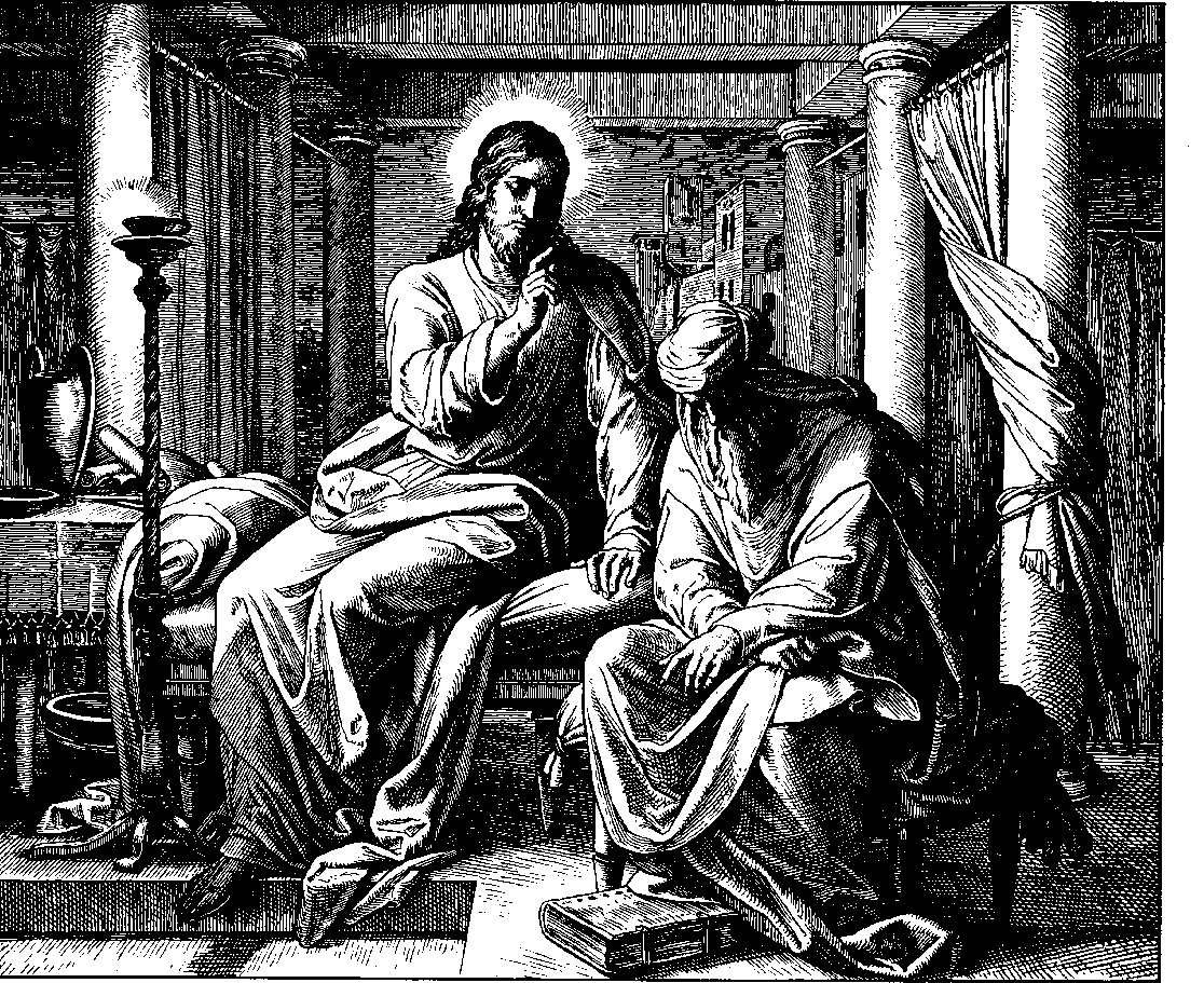 Woodcut for "Die Bibel in Bildern", 1860.